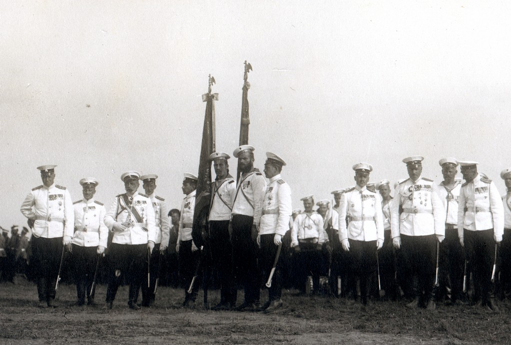 Marine officers of the Guards and marks the group with the flag